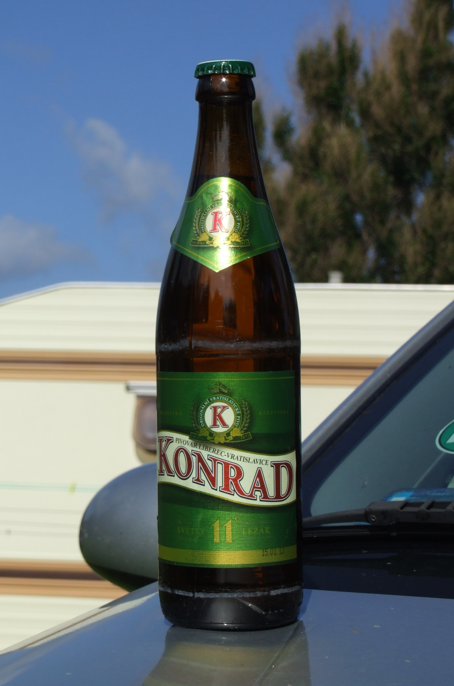 Kondrad - Czech beer from Liberec (Reichenberg)